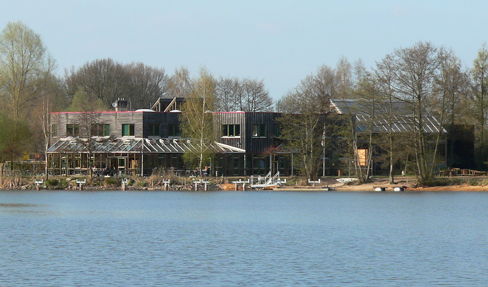 The Otter Centre at Hankensbüttel, Lower Saxony, Germany